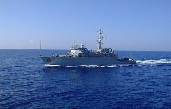 American Mine hunter USS MHC-52